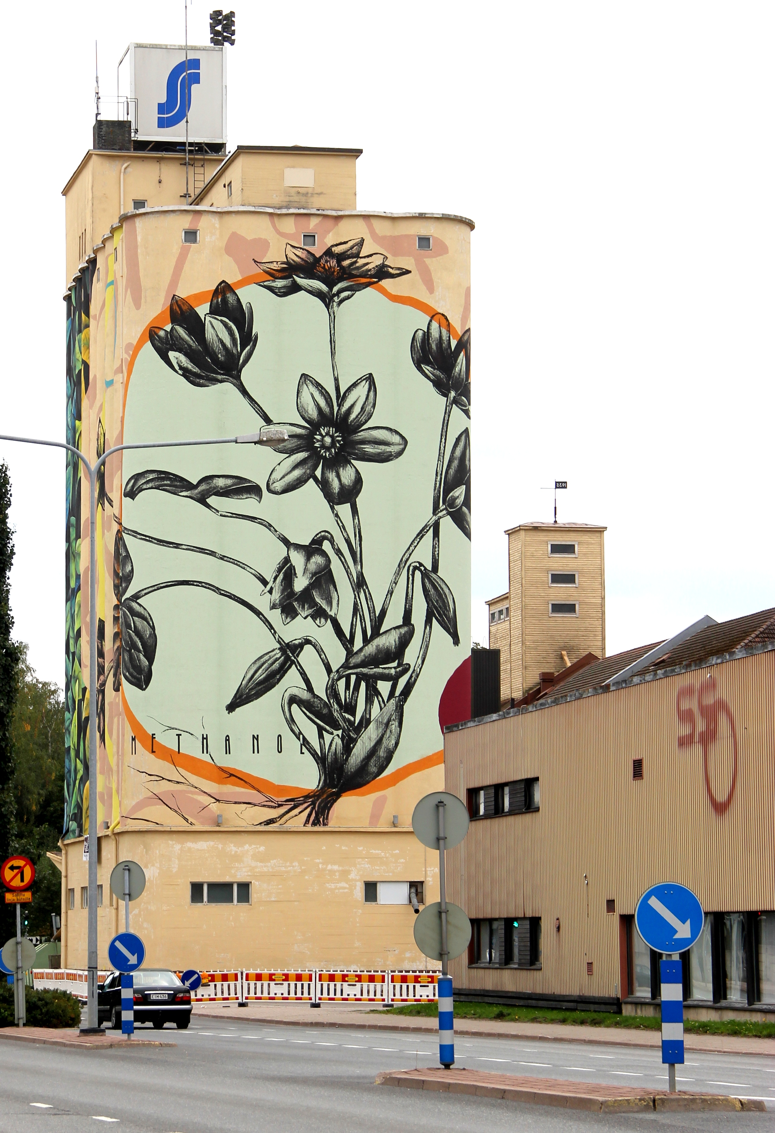 Grain elevator of Suur-Seudun Osuuskauppa, in Mariankatu 12, Salo, Finland